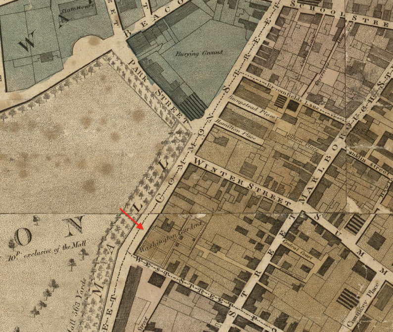 Detail of John Groves Hales' 1814 map of Boston, showing Park Street, Common Street, and vicinity. Includes Washington Gardens